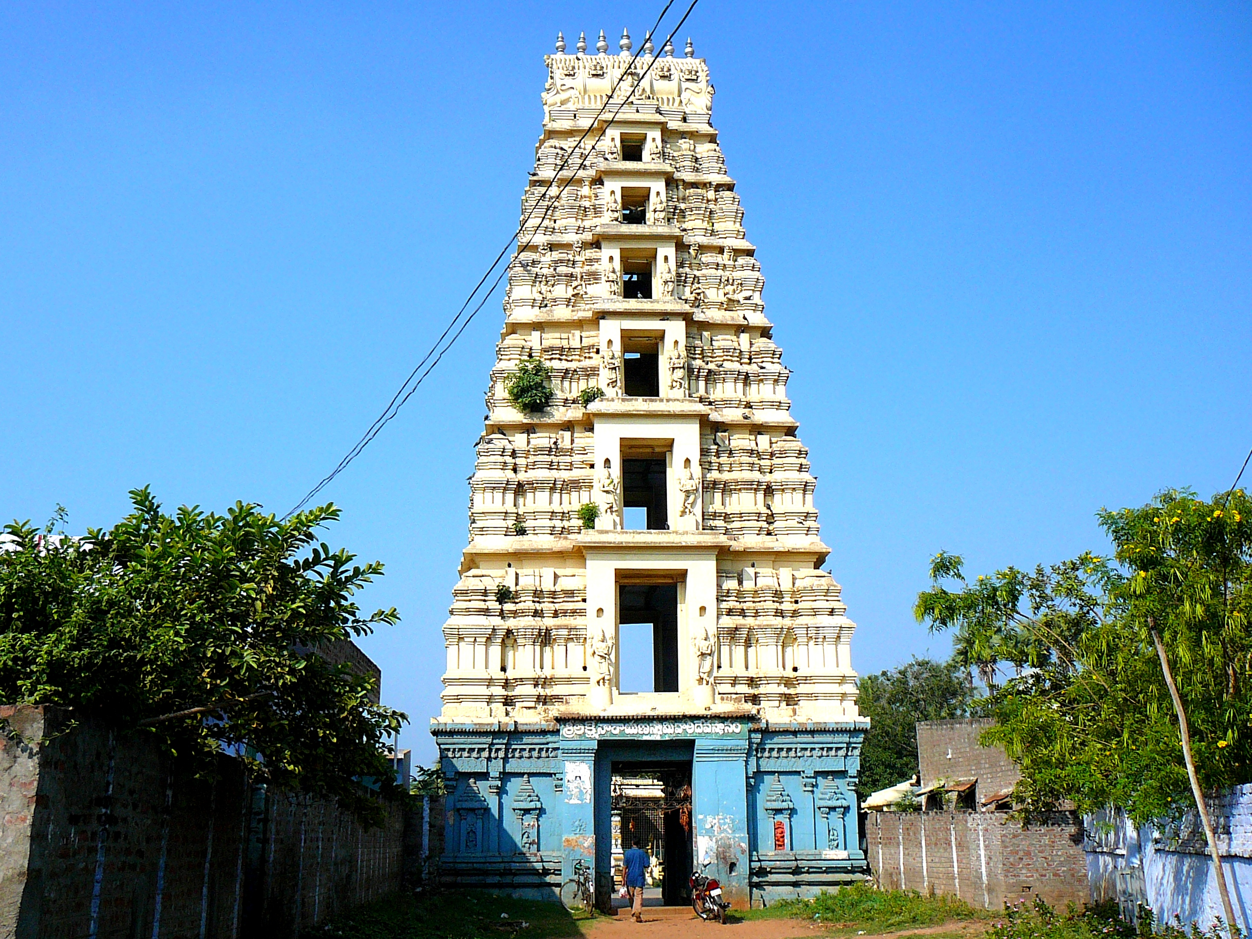 Sri Lakshmi Narayana Swamy Temple Galigopuram situated at Avanigadda village of old Divi Taluk of Krishna District, Andhra Pradesh, India.